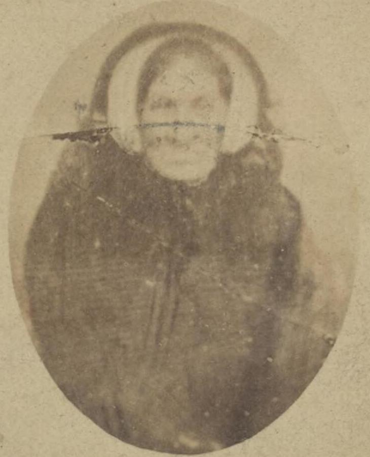 A portrait from the Welsh Portrait Collection at the National Library of Wales. Depicted person: Mary Owen – Welsh hymn-writer